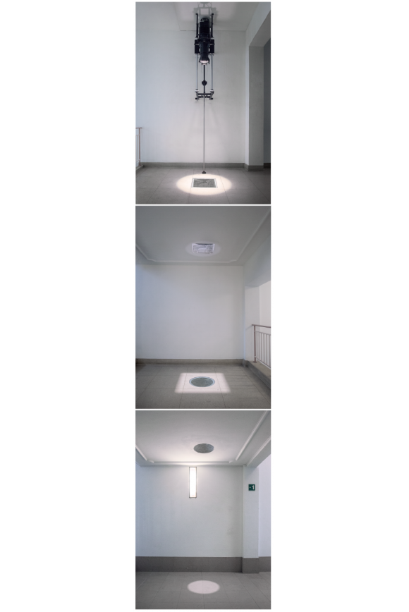 De installatie Lichtlijn (2013) bestaat uit een cirkelvormige en een vierkante uitsnede op meerdere verdiepingen in de trappenhal van de oude Herman Teirlinck school in Antwerpen. Boven de uitsnedes beweegt een spot langzaam op en neer. Door deze beweging veranderen het vierkant en de cirkel telkens van grootte en scherpte. Evenals het werk van de Amerikaanse kunstenaar Gordon Matta-Clark maakt Lichtlijn een doorsnede doorheen de verschillende verdiepingen van het gebouw en creëert zo een ander perspectief op de ruimte.